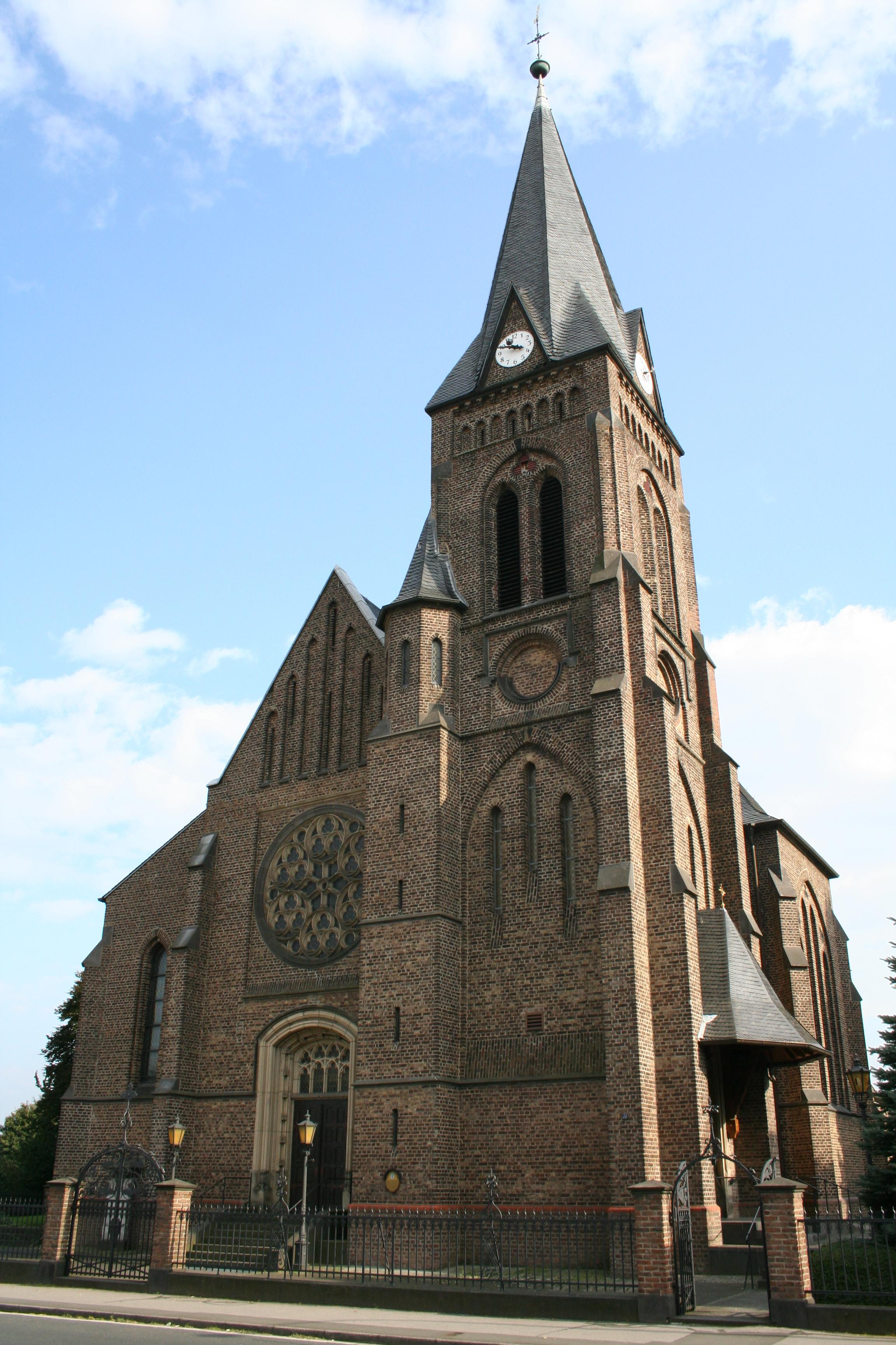 This image shows the catholic church "St. Barbara" in the German city Langenfeld (Rheinland), district Reusrath.